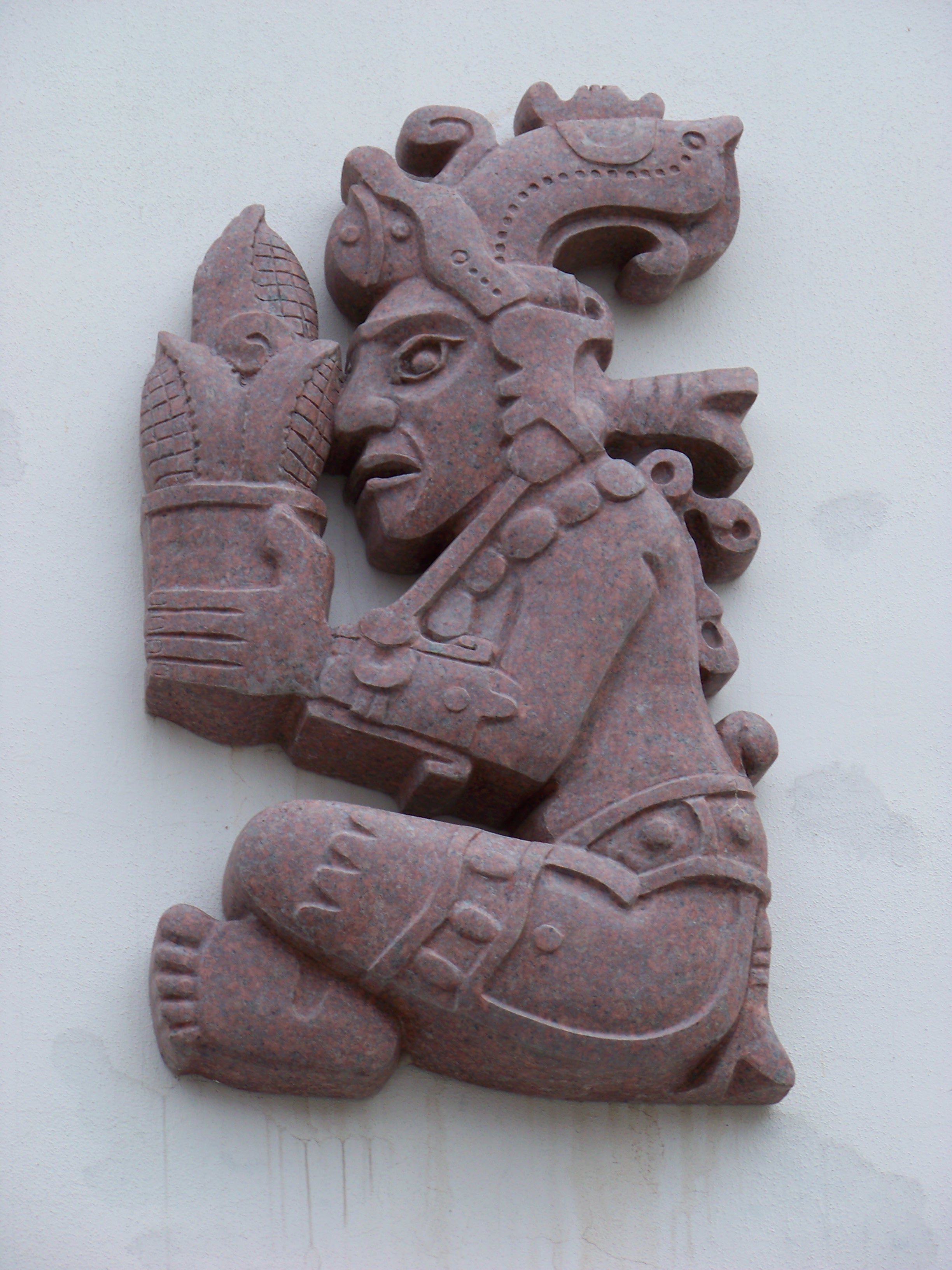 Teplice, Teplice District, Ústí nad Labem Region, the Czech Republic. Josefa Suka 1388, Botanical Garden, a relief upon the entry of the Tropicana greenhouse. Yum Kaax (Lord of the woods in Yukatec) - patron of the glasshouses - OpenStreetMap(Info)